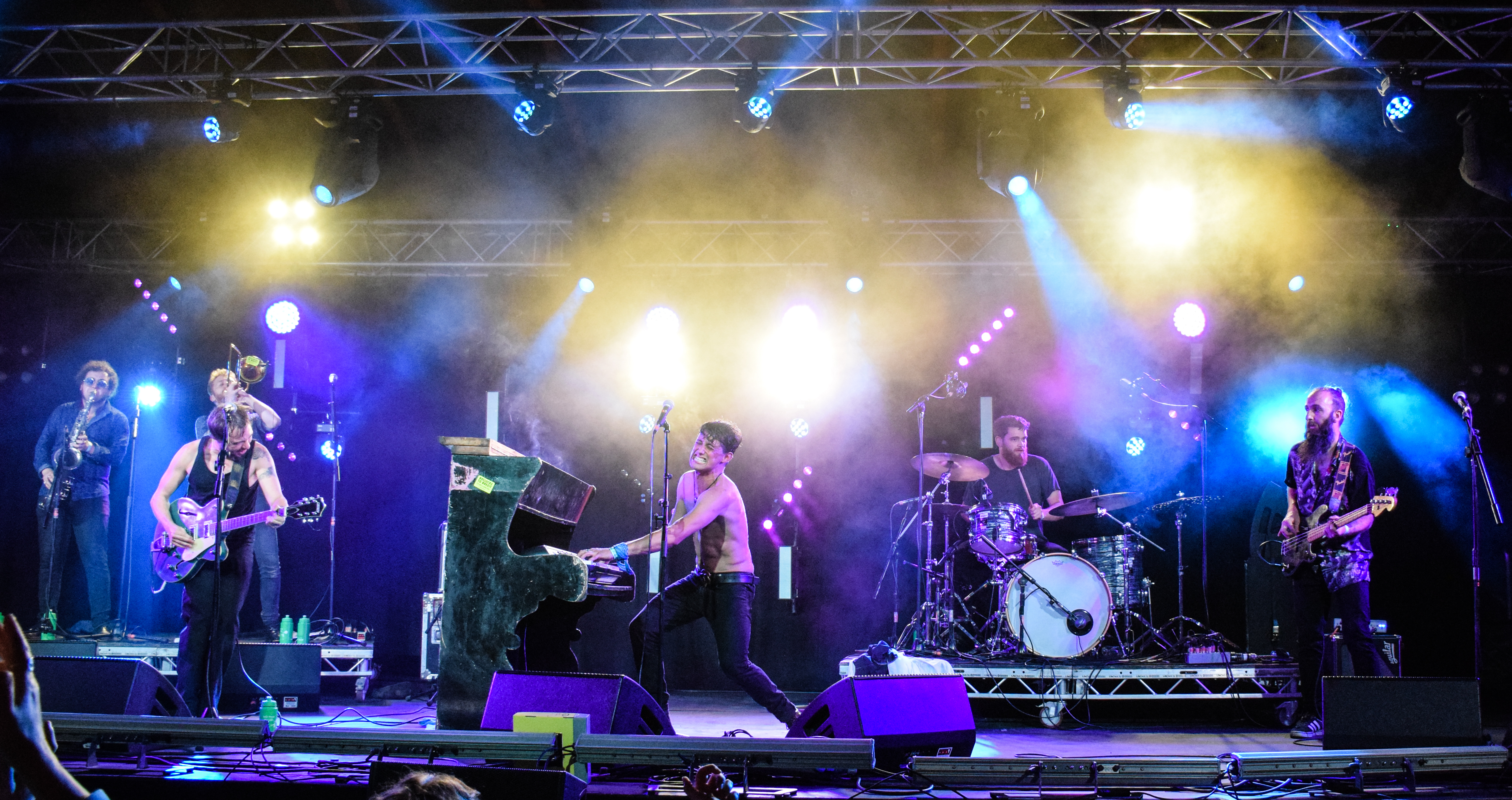 Tankus the Henge performing at Towersey Festival, 2018